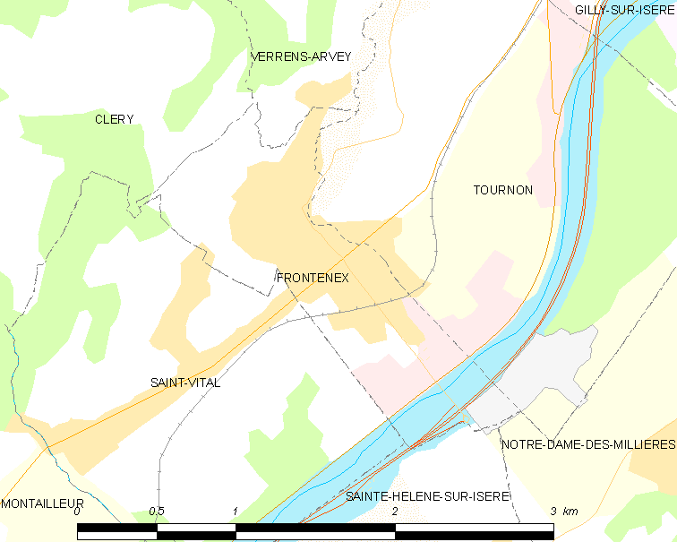 Map of French municipality